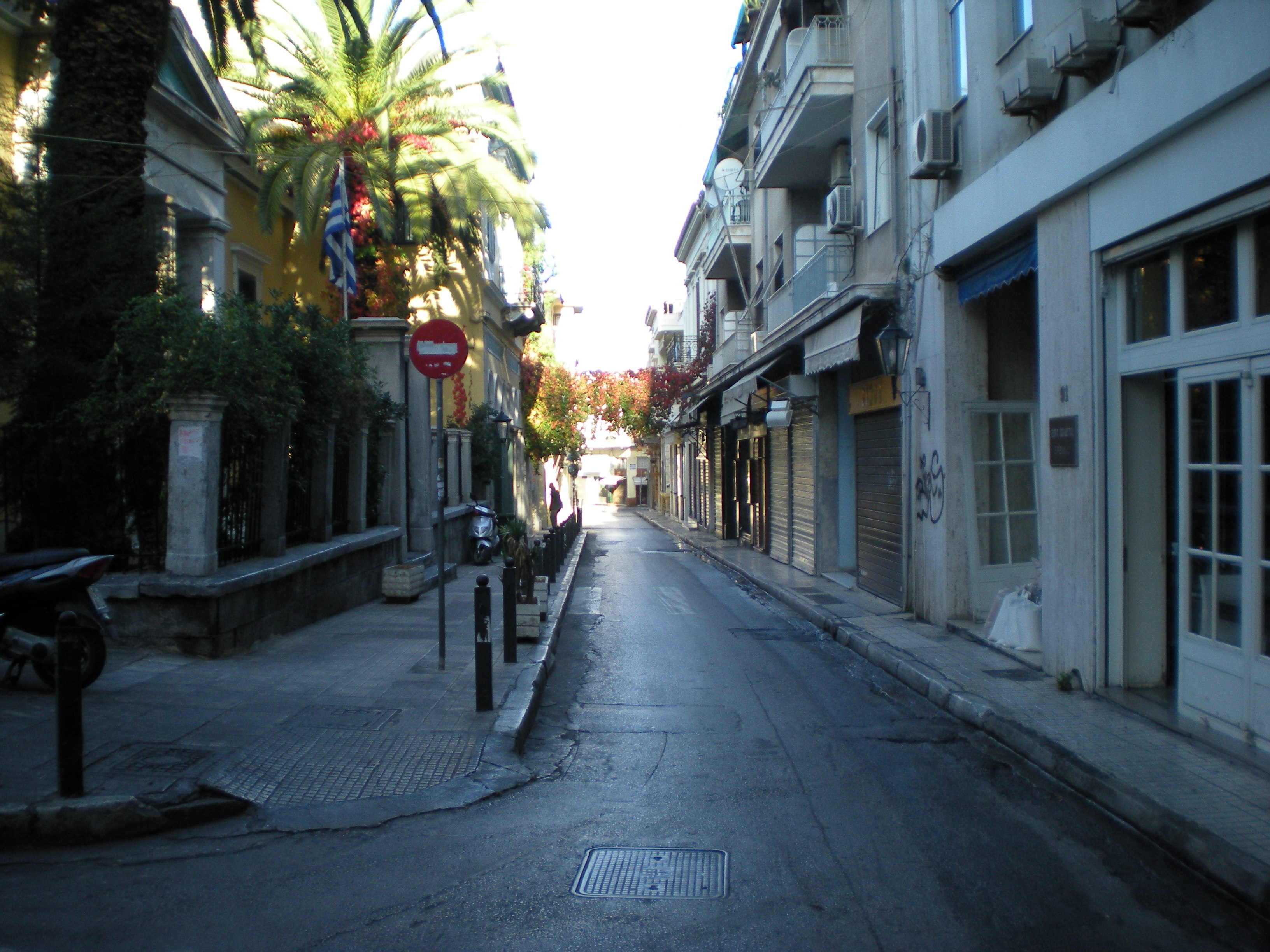 Streview from Plakka, Athens Gatebilde fra Plakka i Athen